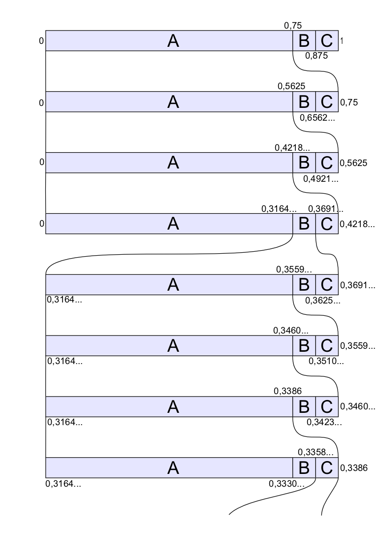 Example of interval reducing used at arithmetic coding